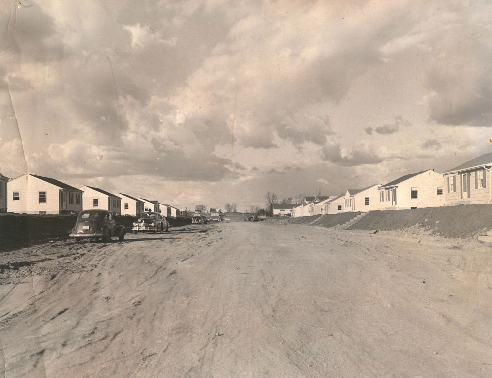 Photo showing Suburban development on Washburn Avenue, Richfield, Minnesota. Original photo in the collections of the Richfield Historical Society.